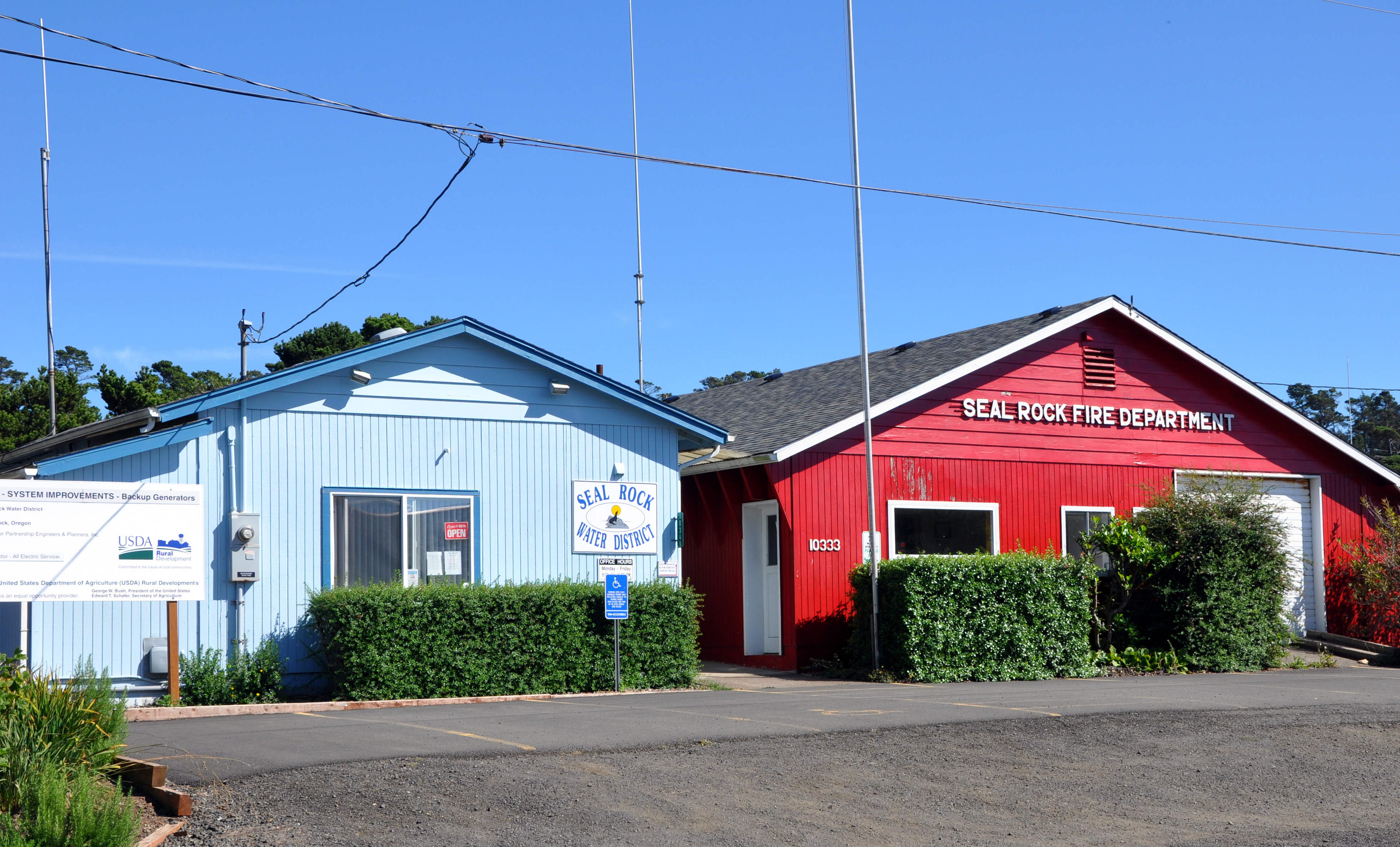 Fire department and water district buildings in Seal Rock, Oregon, in the United States. View is to the east from near U.S. Highway 101.